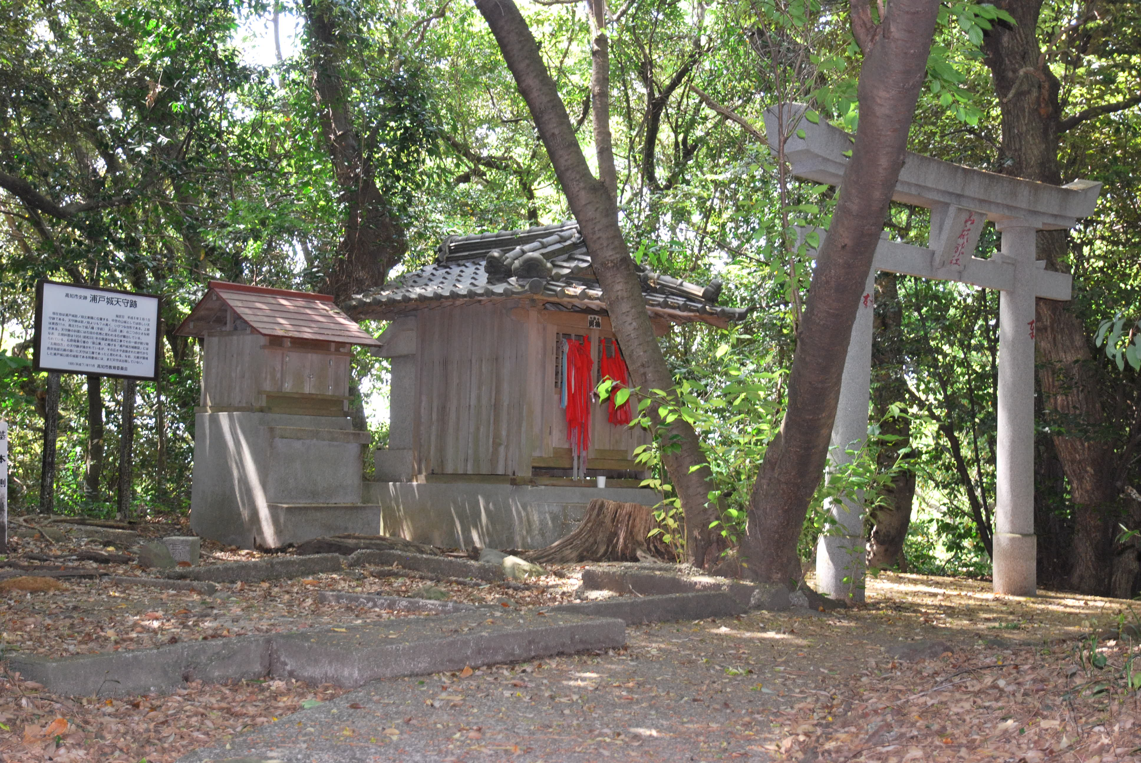 Top of the keep base, Urado-jō (Yamazumi-jinja)